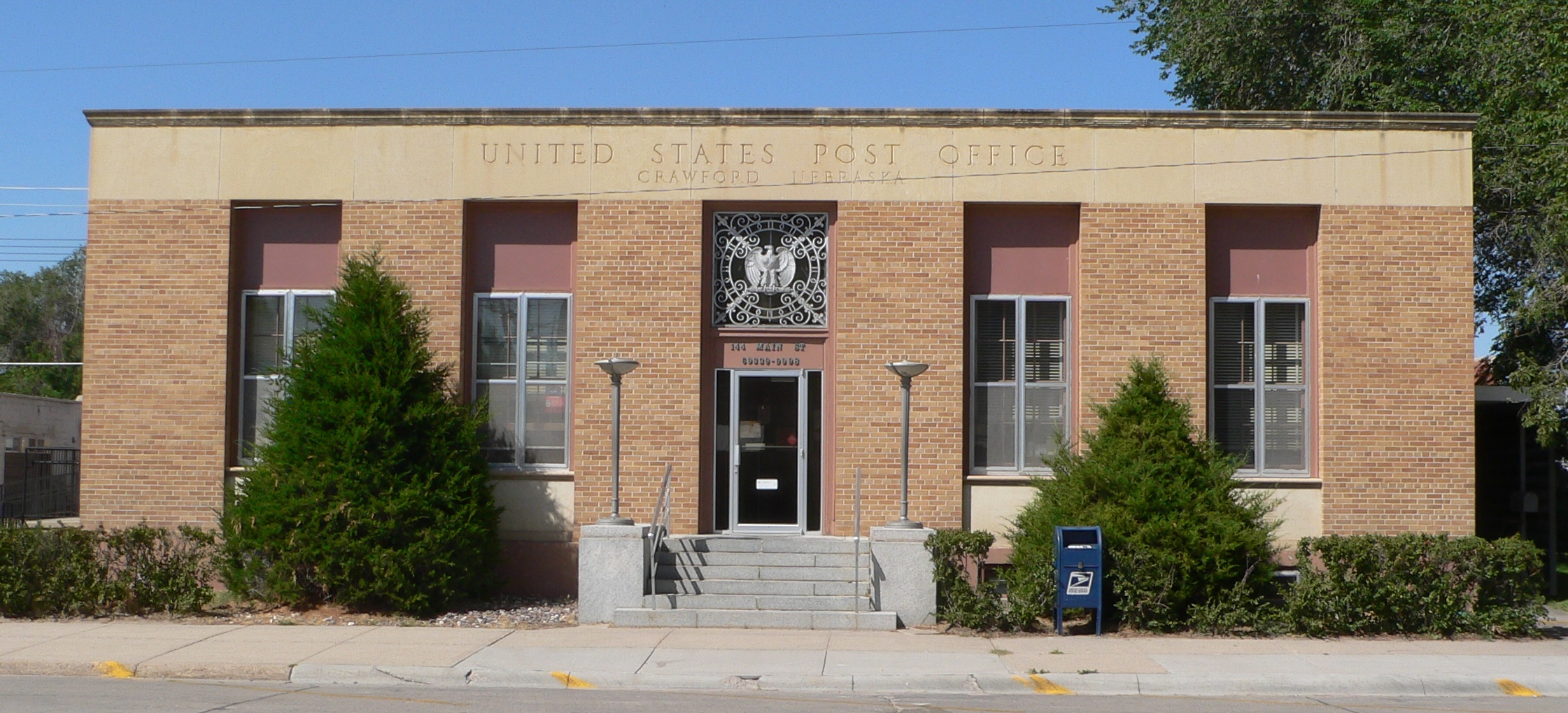 U.S. Post Office at northwest corner of 2nd and Main Streets in Crawford, Nebraska; seen from the south. The Moderne building was constructed in 1938. It is listed in the National Register of Historic Places.